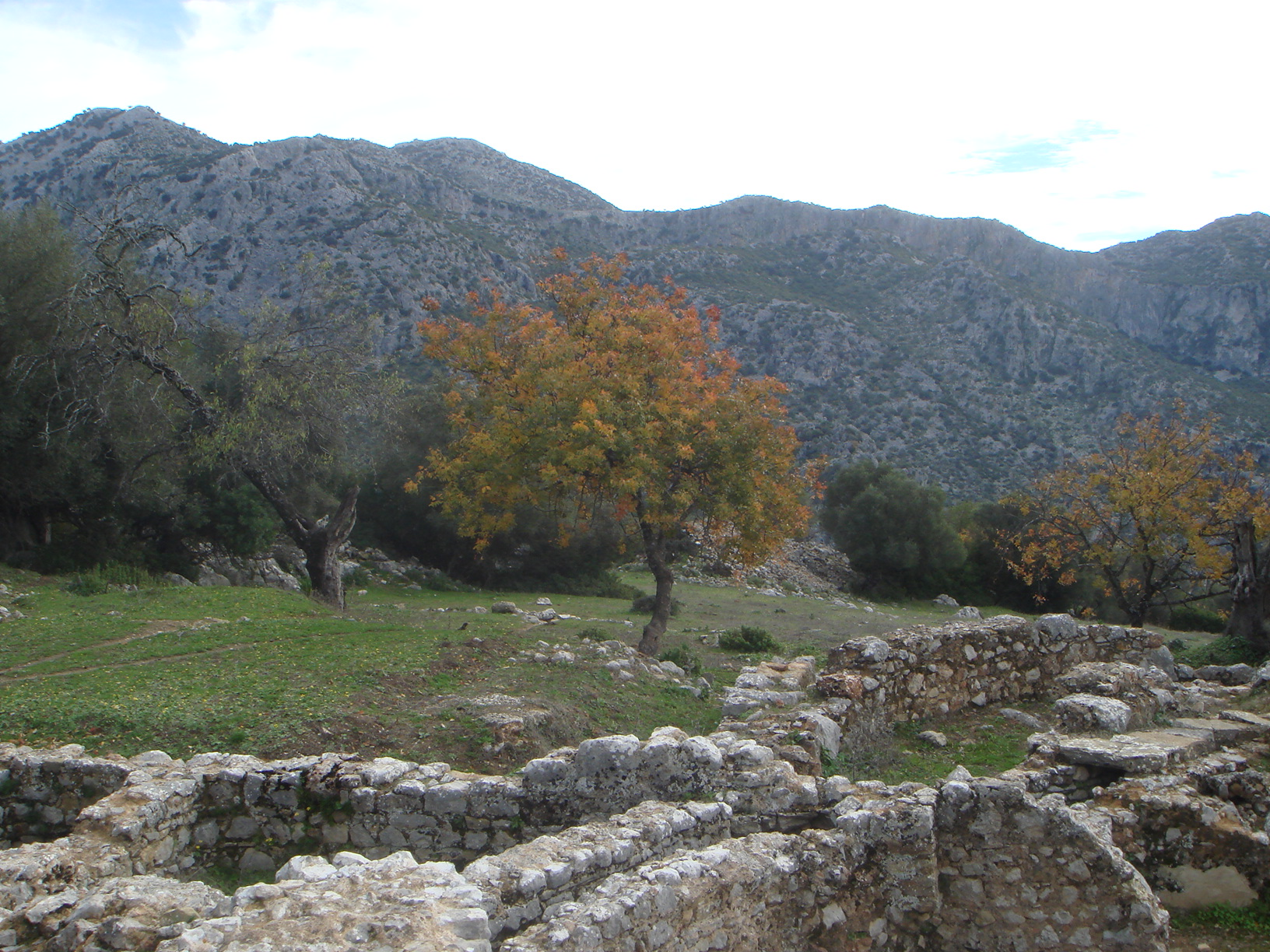 Terebinth at Ocuri, Ubrique (Cádiz), Spain.